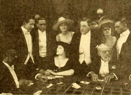 Still from the American film The Divorcee (1919) with Ethel Barrymore, on page 623 of the February 1, 1919 Moving Picture World.